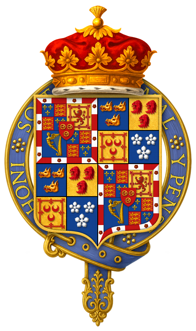 Garter encircled shield of arms of Charles Gordon-Lennox, 7th Duke of Richmond, KG, GCVO, as displayed on his Order of the Garter stall plate in St. George's Chapel.